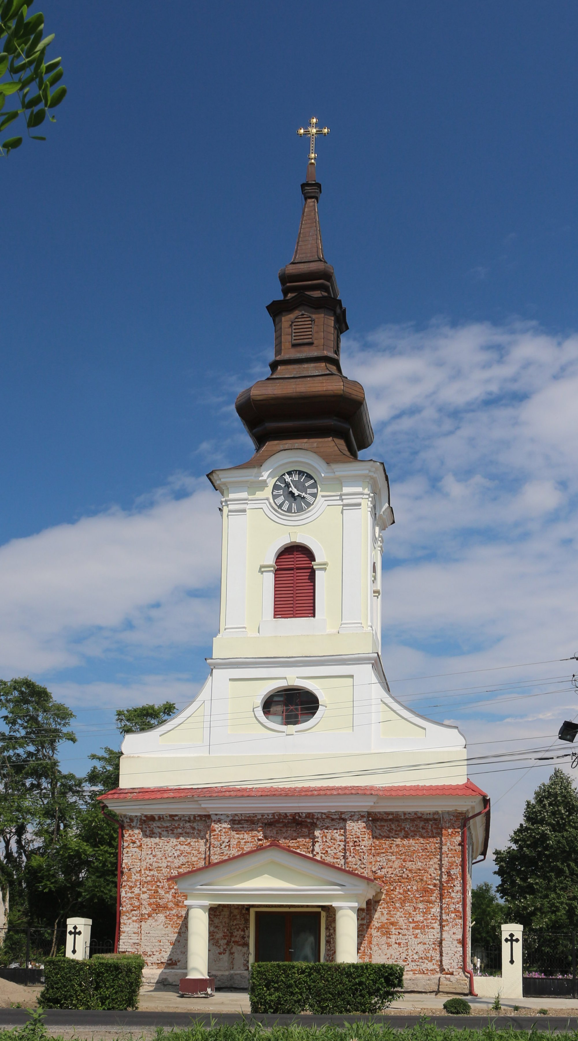 Orthodox church "Sf. Mucenic Gheorghe", Beregsău Mare, built 1793.